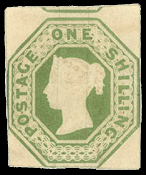 Embossed green shilling. Postage stamp of the United Kingdom, 1847, scott#5, die 2.